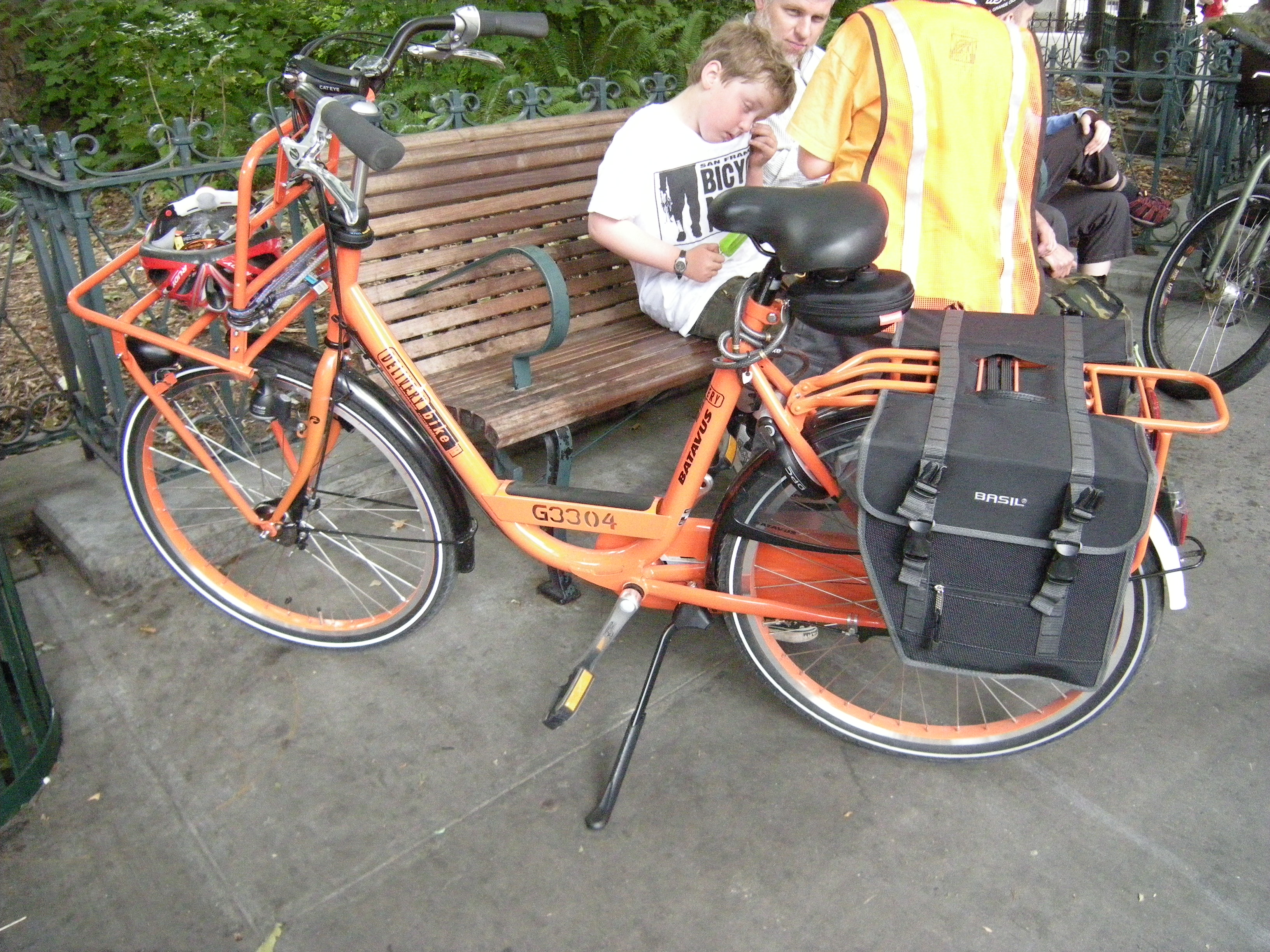 Batavus delivery bicycle, photographed at cargo bike rally, Seattle, Washington. The photo was taken at the Pioneer Square pergola.